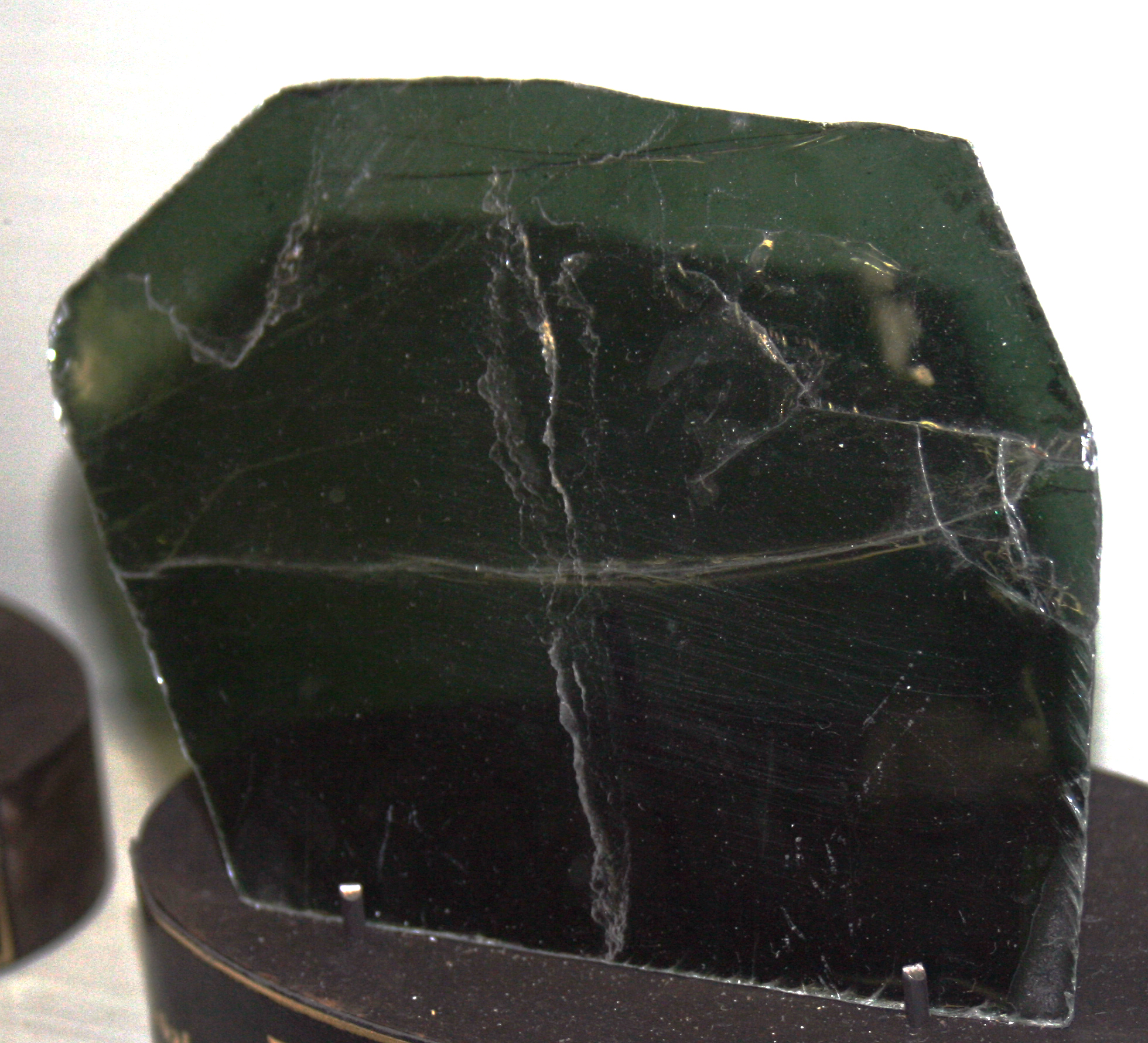 Mineral clinochlore, chemical composition: (Mg,Fe2+)5Al(Si3Al)O10(OH)8, from collection of National Museum, Prague, Czech Republic, originally from Madagascar